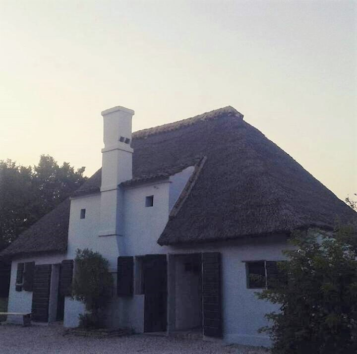 Casone Azzurro di Vallonga - Arzergrande (Padova)